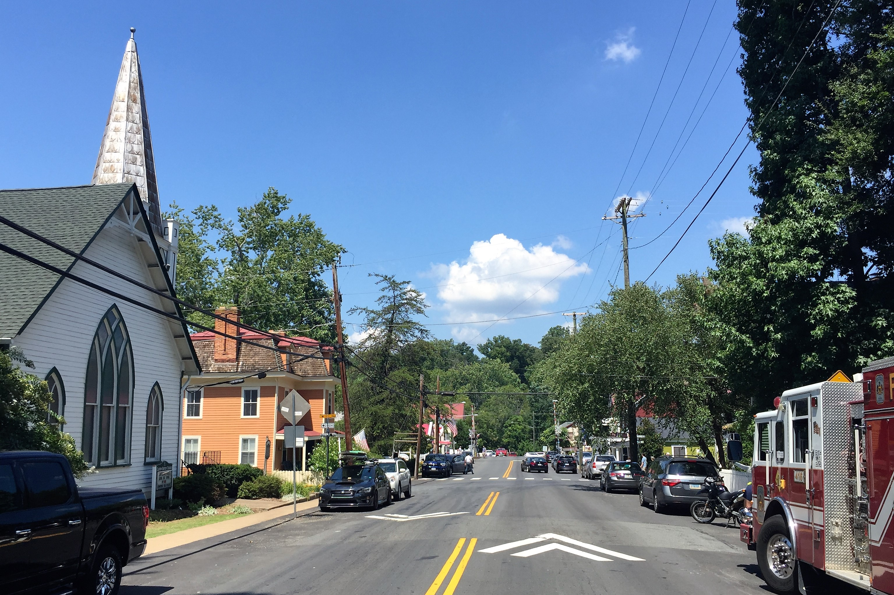 A view down Main Street in Clifton, Virginia